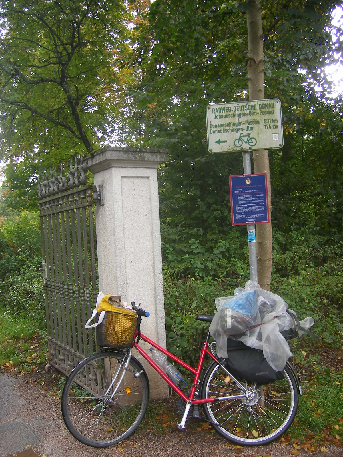 Beginning of the Danubian Cycle Route (Donauradweg) in Donaueschingen